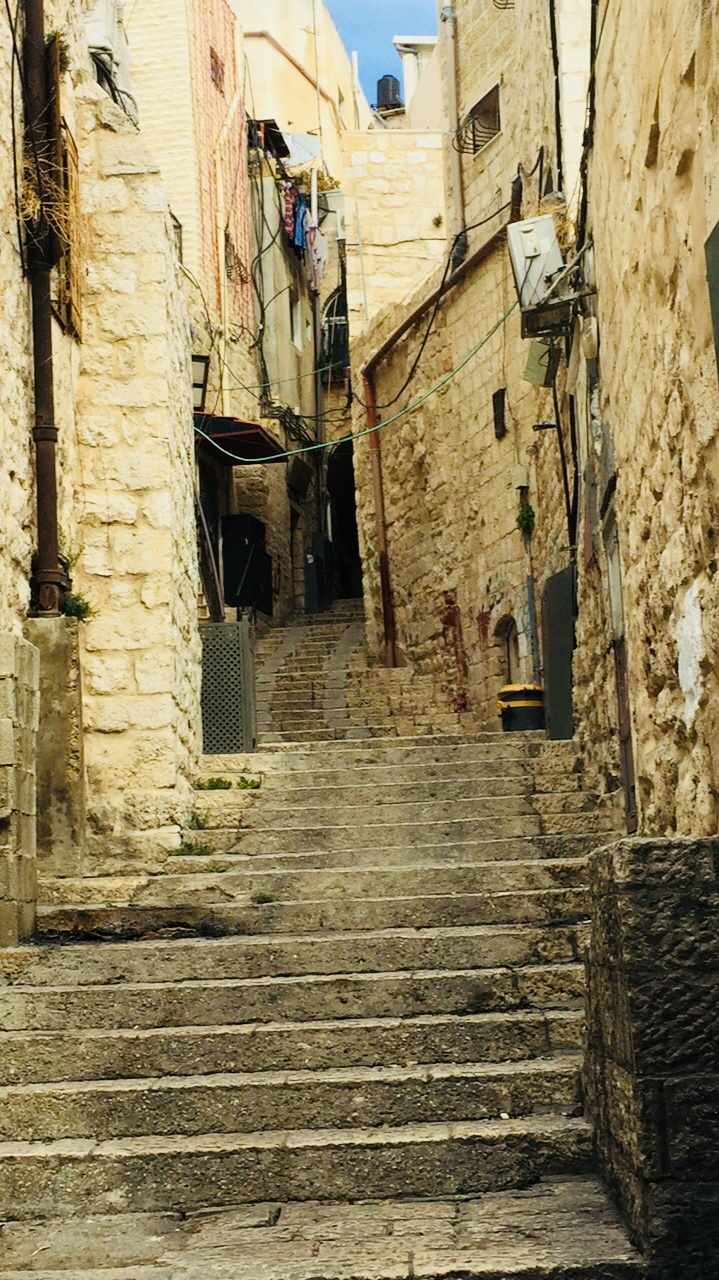 Old Jerusalem, Muslim Quarter, Risas street - Old City roads in population area